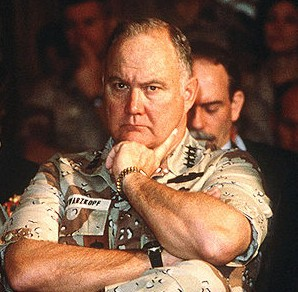 General Herbert Norman Schwarzkopf, 1991 (cropped)